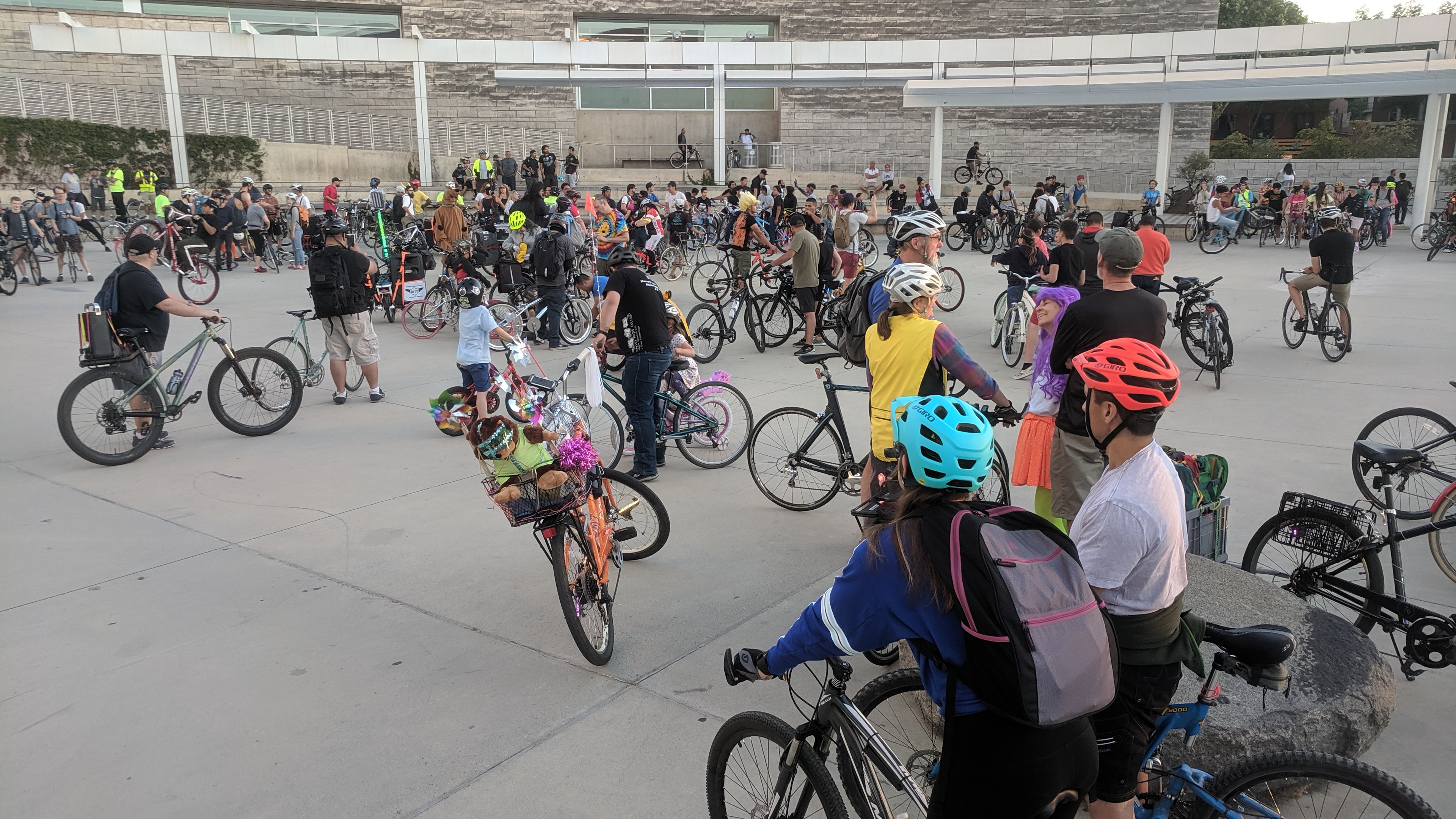 San Jose Bike Party assembles at the monthly ride's start point at San Jose City Hall on June 21, 2019